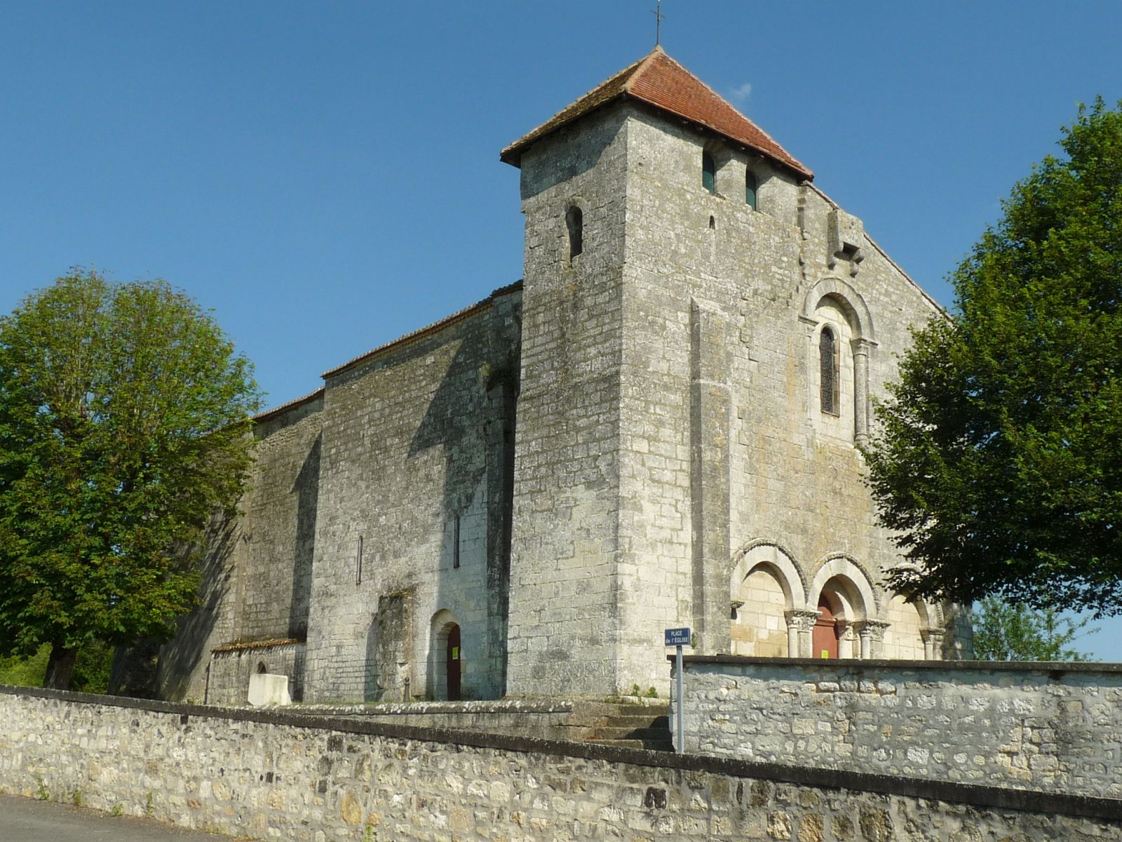 church of Touvre, Charente, SW France